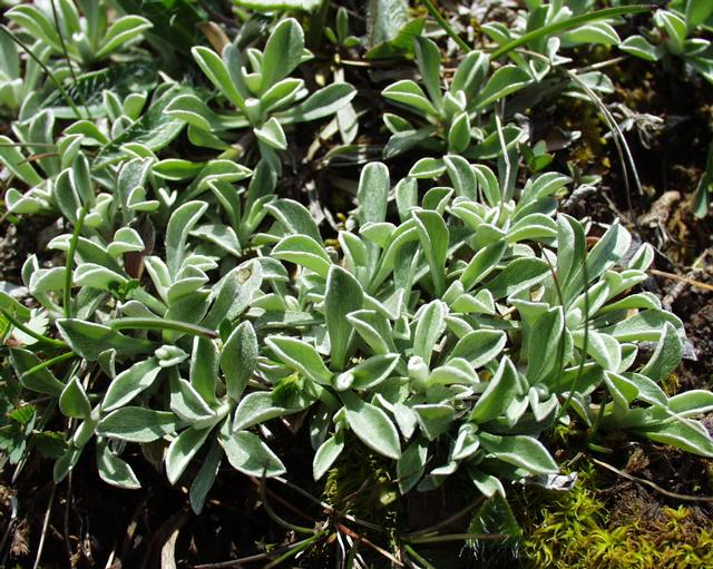 (en) Antennaria dioica, a photography originating of the internet site The accord of the autor, H. Brisse, is here. (fr) Antennaria dioica, une photographie issue du site internet L'accord de l'auteur, H. Brisse, se situe ici.